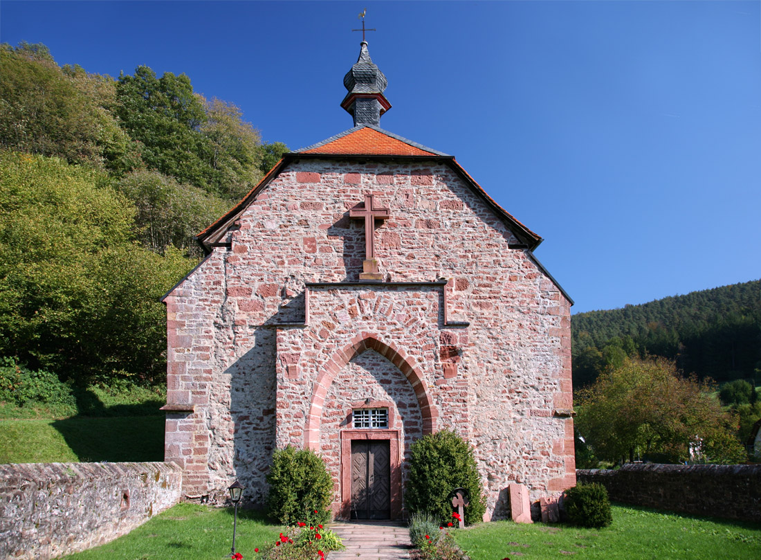 Source and Pilgrimage Church to Schoellenbach